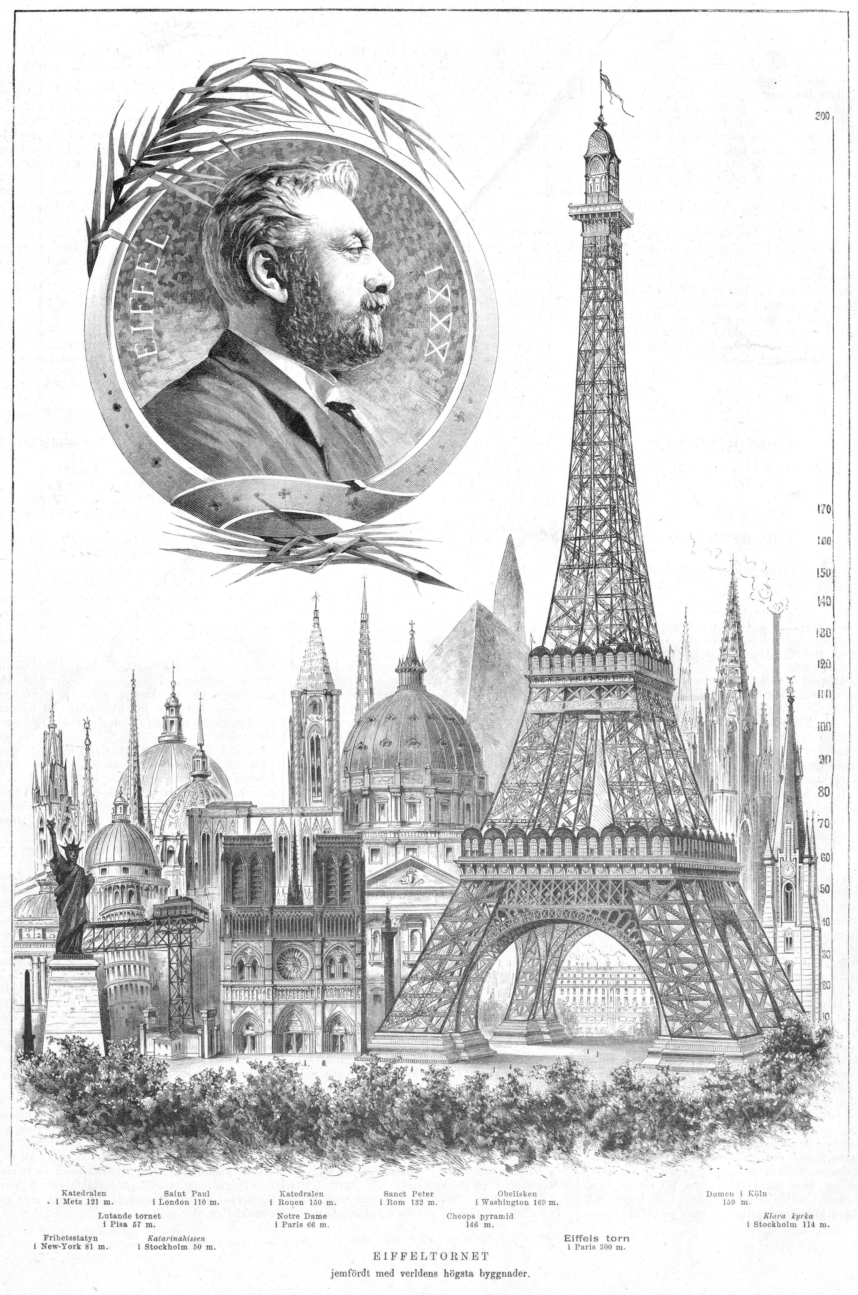 The worlds highest buildings 1889.